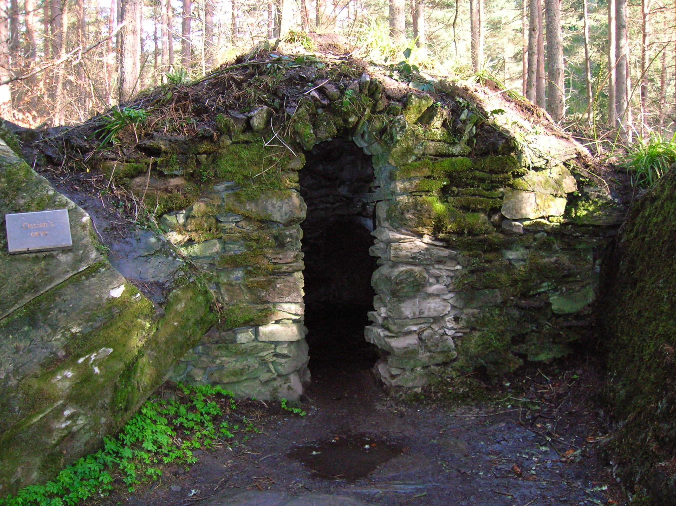 Ossian's Cave front door at The Hermitage, Scotland